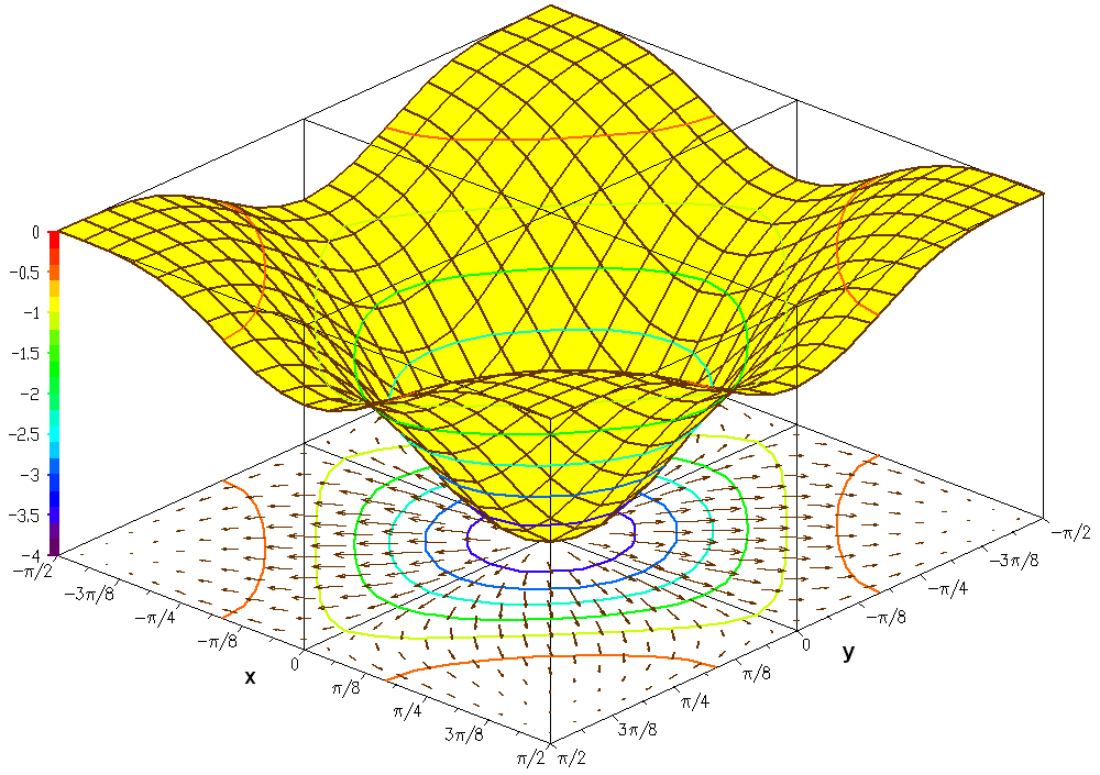 3D plot of f(x,y)=−((cosx)^2 + (cosy)^2)^2 also shown the gradient projected on the bottom plane - plot done with D_2D & D_3D